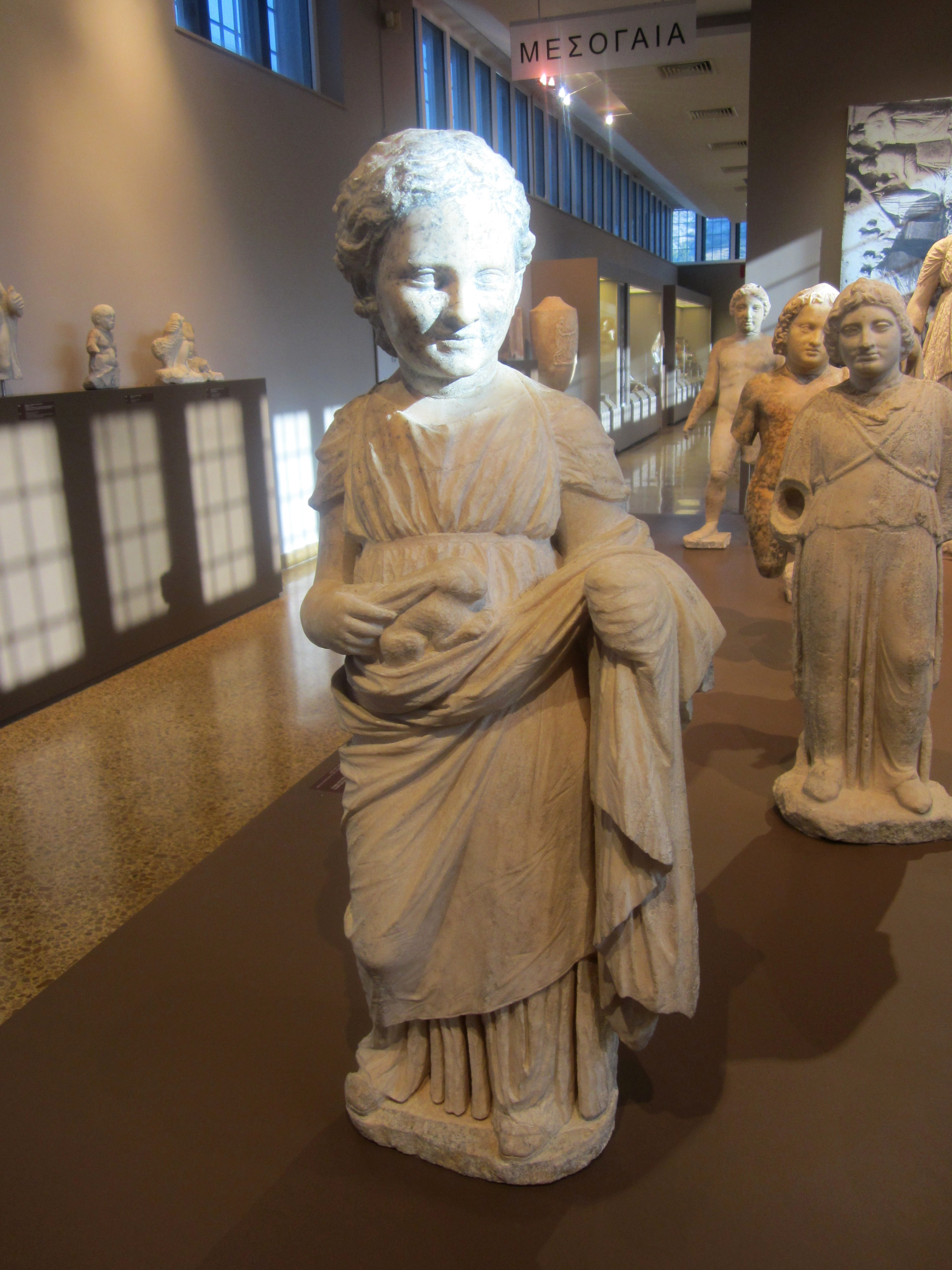 Girl in chiton and himation with a hare, ca. 320 BC. Archaeological Museum of Brauron, Greece.